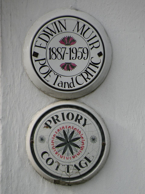 Plaques on Priory Cottage Edwin Muir was a Scottish, or rather Orcadian, poet, but much travel brought him here at the very end of his life. Wikipedia